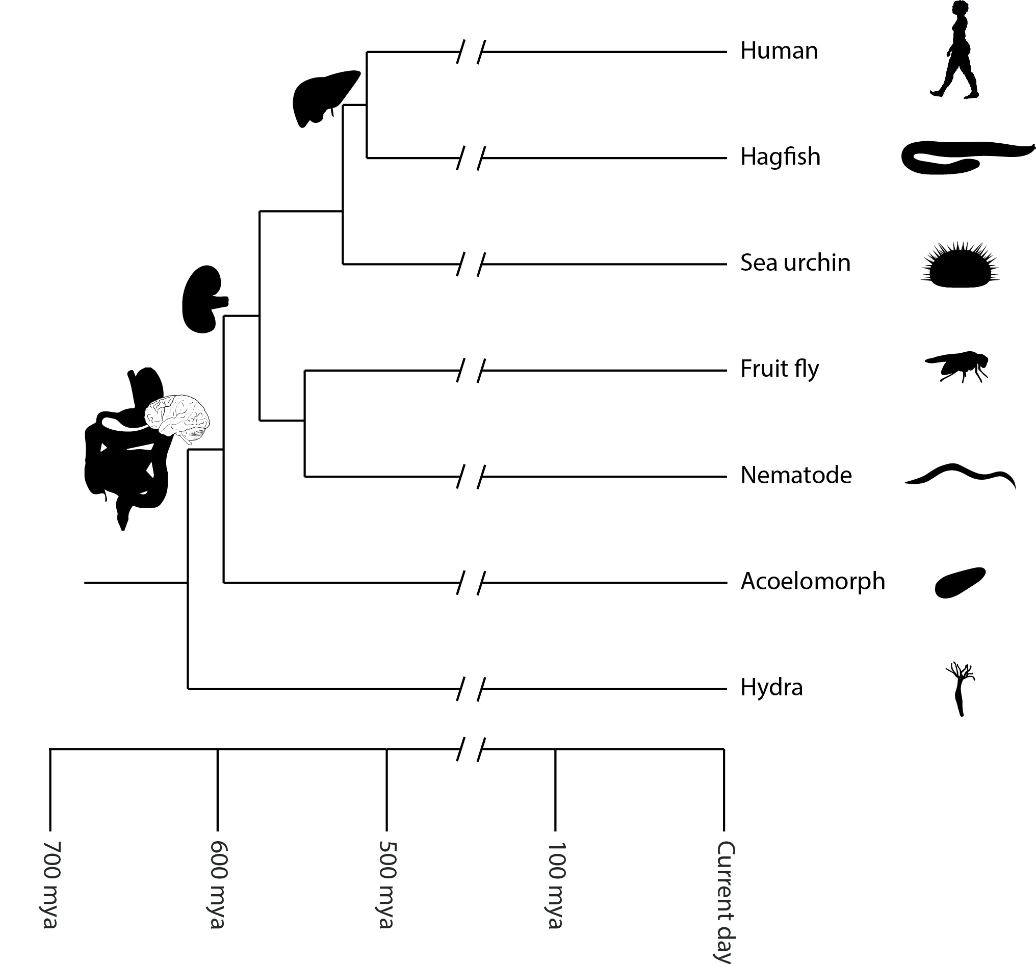 This phylogeny (relationship tree of animals) depicts examples of major animal lineages, and their relationship. Against this phylogeny specific organs are noted. As can be seen most animal organs evolved a very long time ago. Also, almost all organs evolved only once in all animals. This means that studying how organs evolved in animals is a very difficult problem to study.